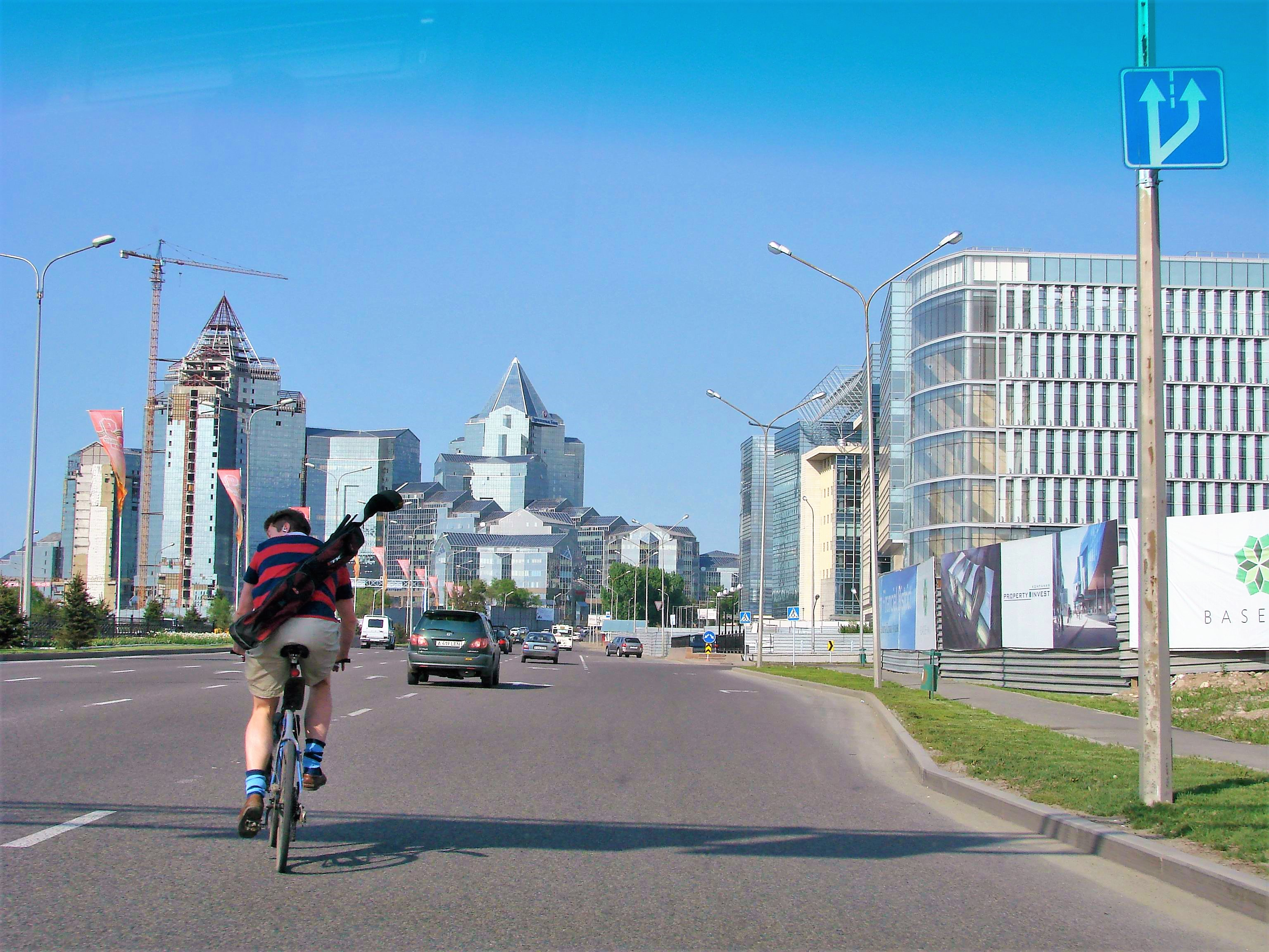 Al-Farabi street, Almaty